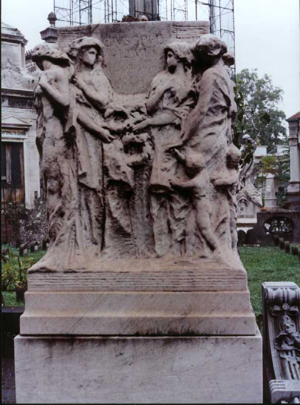 Tomb of Comm. Giuseppe Levi in Cimitero Monumentale in Milan, Italy